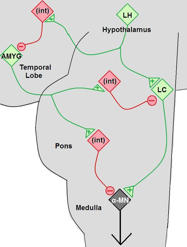 Simplified diagram of a neural circuit involved in motor commands. Neurons in green are excitatory and red are inhibitory. 'α-MN' stands for alpha motor neuron (the innervation of which or lack thereof is the result of the circuit), 'AMYG' amygdala, 'LH' orexin neurons in the lateral hypothalamus, 'LC' locus coeruleus, and '(int)' stands for various interneurons.